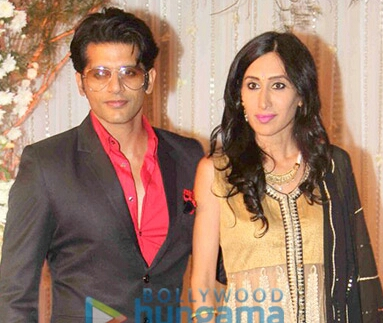 Karanvir Bohra and Teejay Sidhu at Bipasha Basu and Karan Singh Grover's wedding